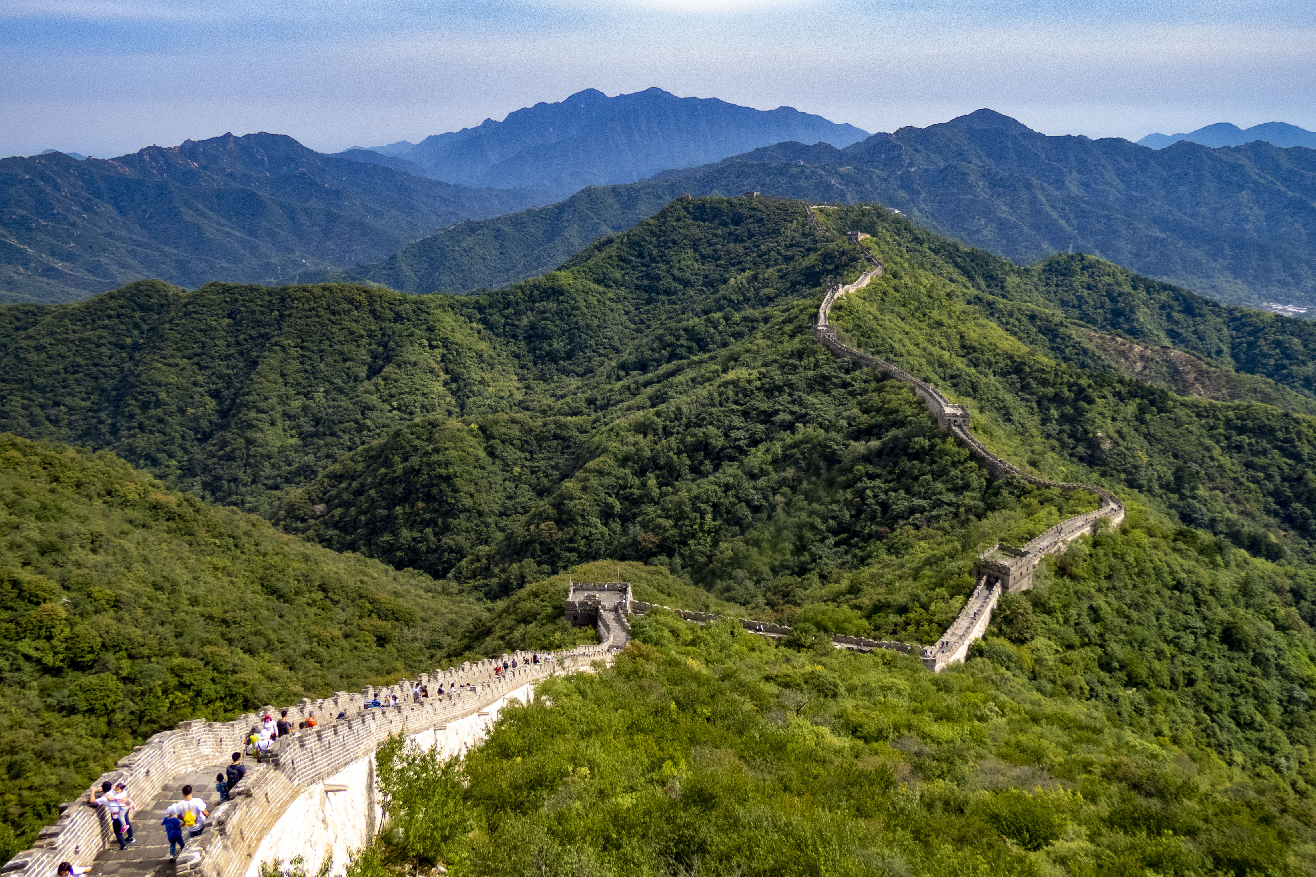 Probably the top.